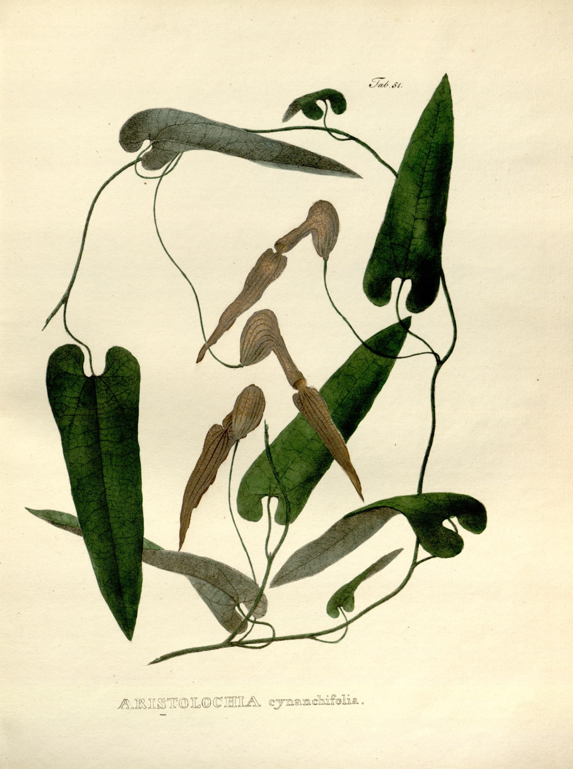 Aristolochia cynanchifolia Nova genera et species plantarum. Monachii [Munich] :Impensis Auctoris,1824-1829 [i.e. 1824-32]..